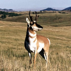 Pronghorn in Wind Cave National Park, South Dakota, United States. Image from the National Park Service's Wind Cave NP site, sides have been cropped a bit to focus on animal in the center.